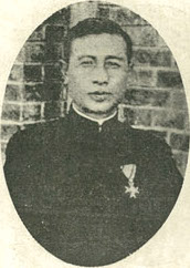 三屋靜/三屋静 Mitsuya Sei